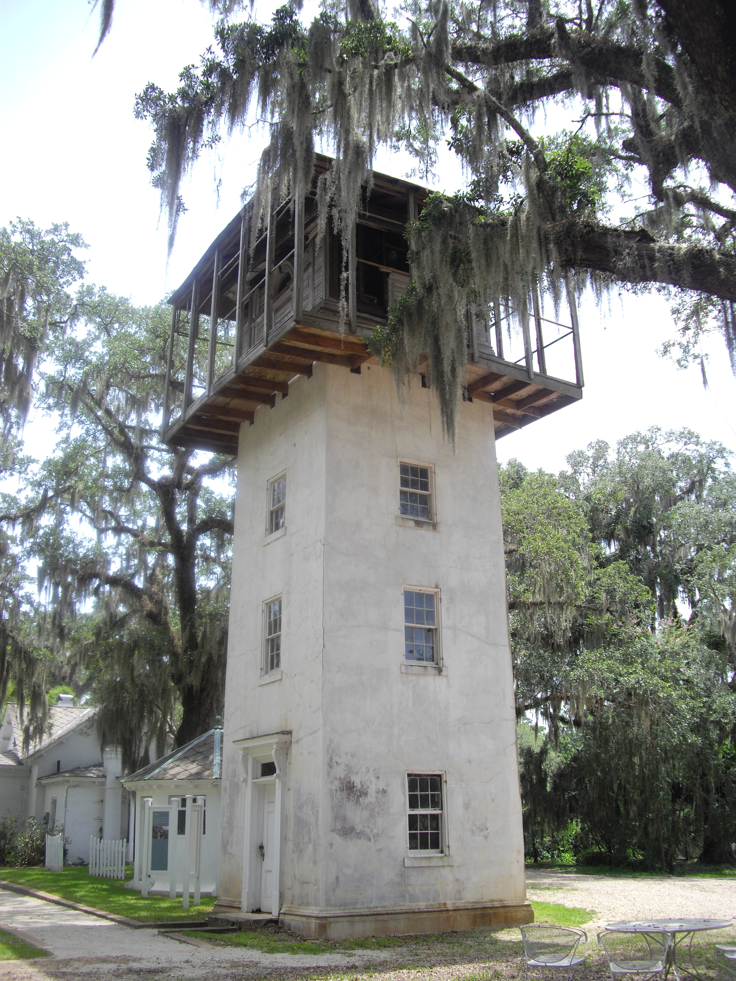 This tower is at Goodwood Plantation in Tallahassee. The top piece has scaffolding so it can be fixed.